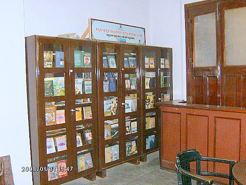 Karnataka books pradhikara